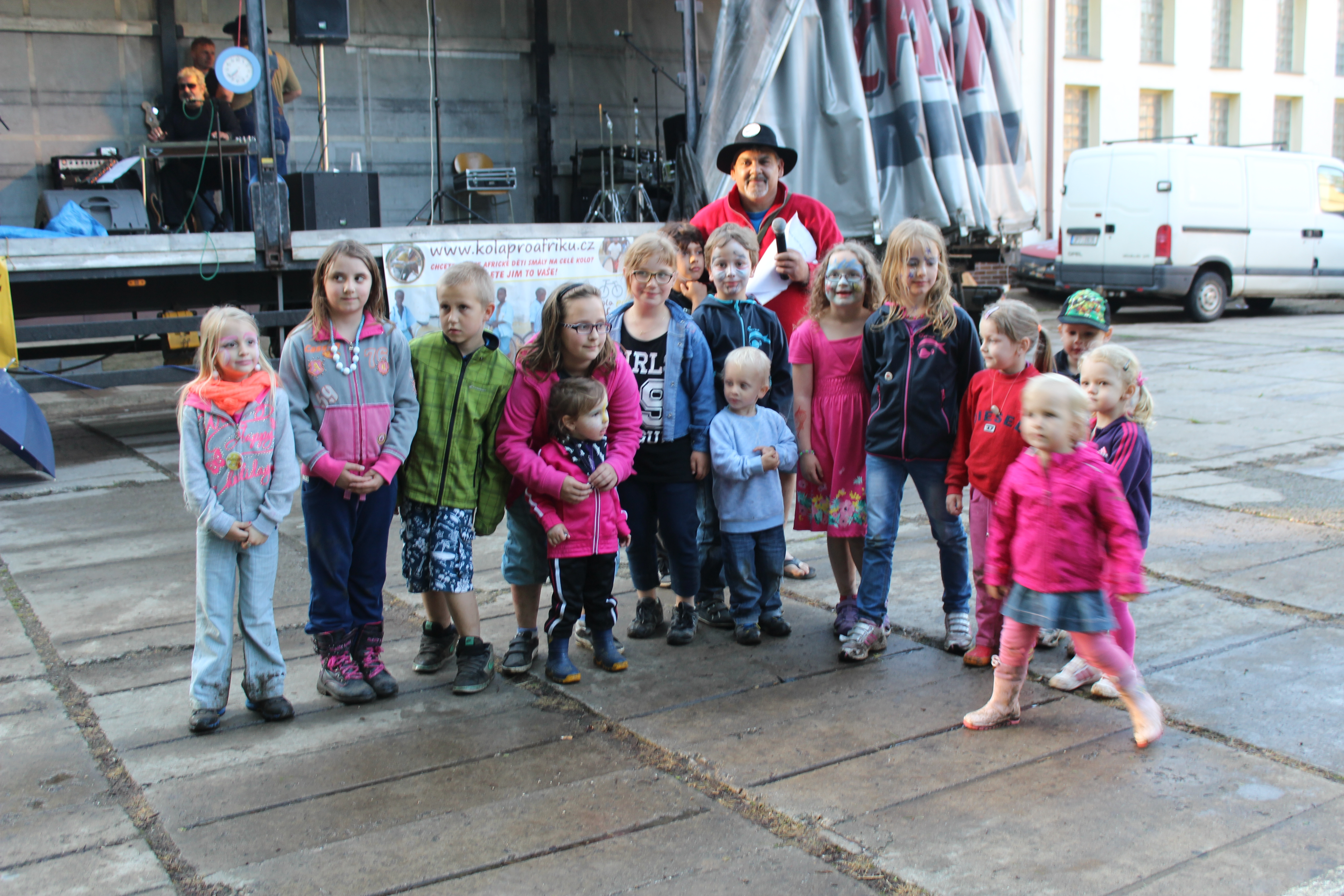 Liteňfest - Folk & Country Festival in Liteň (District Beroun)